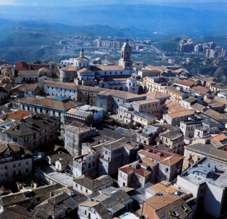 View of the old town of Catanzaro (Italy), the cathedral in the upper part